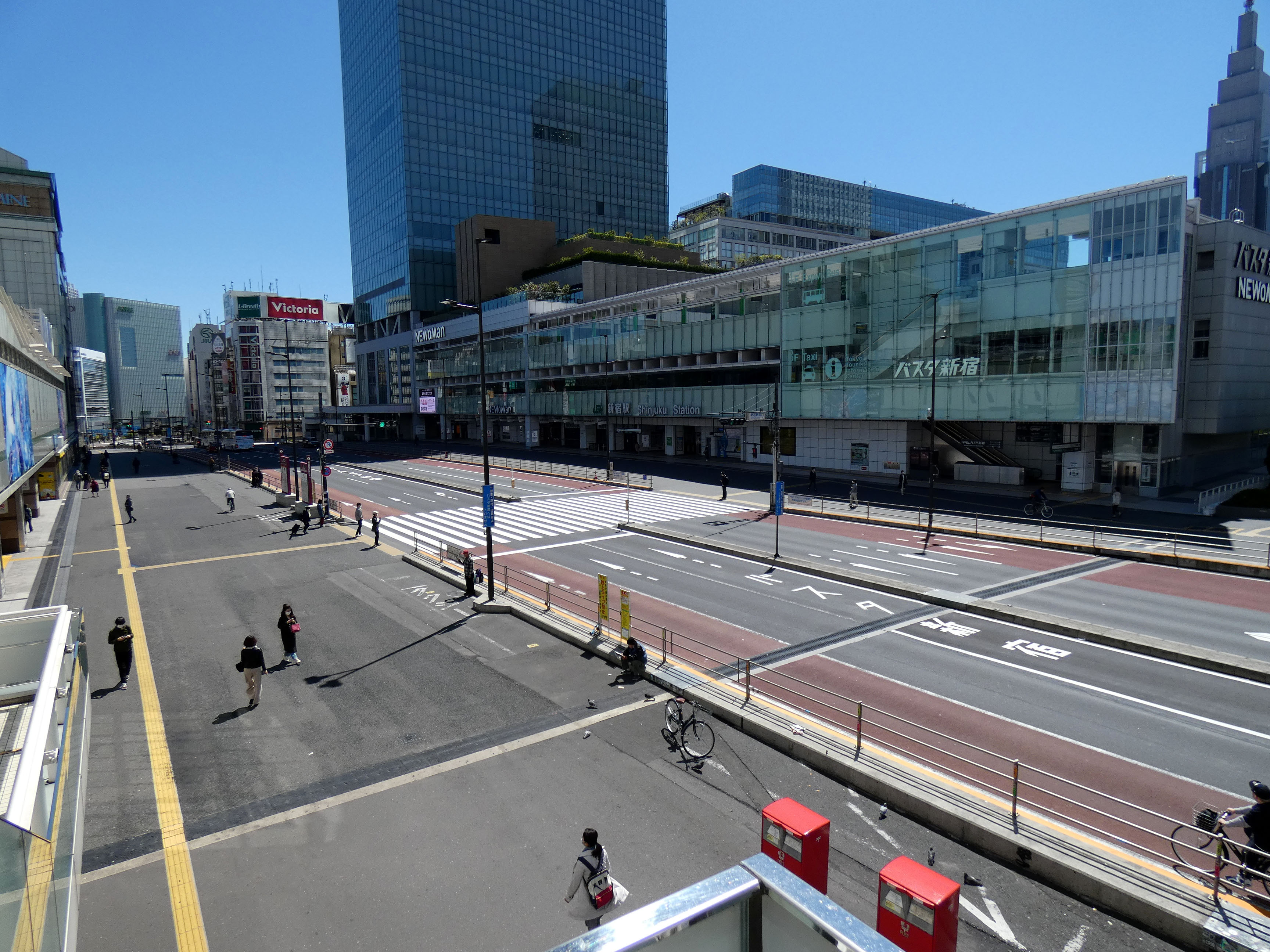 Shinjuku Expressway Bus Terminal (Tokyo, Japan) under the state of emergency for coronavirus pandemic